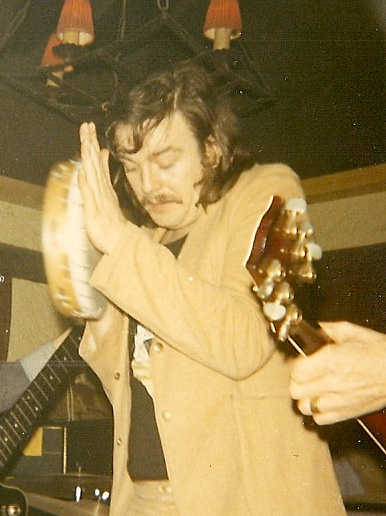 Ashton during a non-profit gig, Hotel Post, Christmas 1971.